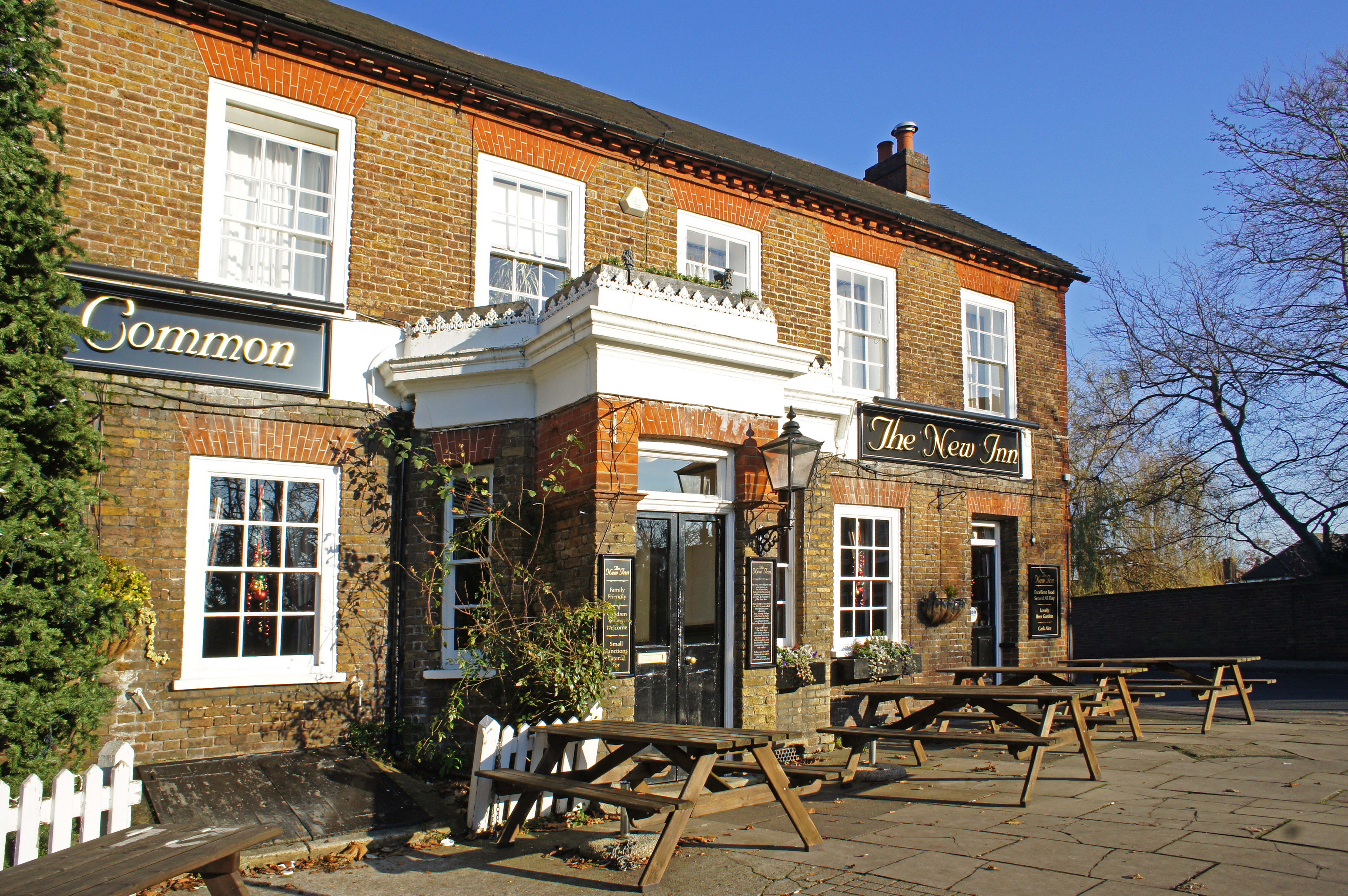 The New Inn at Ham Common.